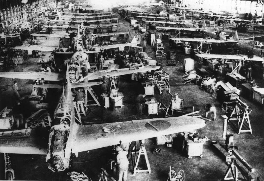 PictionID:43720557 - Title:Kawasaki Ki-61-II Hien 'Tony' The building of Ki-61s on an assemly line. There are at least 2 dozen aircraft in various stages of beind built. - Catalog:15_003801 - Filename:15_003801.tif - - - Image from the Charles Daniels Photo Collection album "Japanese Aircraft"----PLEASE TAG this image with any information you know about it, so that we can permanently store this data with the original image file in our Digital Asset Management System.---- --Repository: San Diego Air and Space Museum